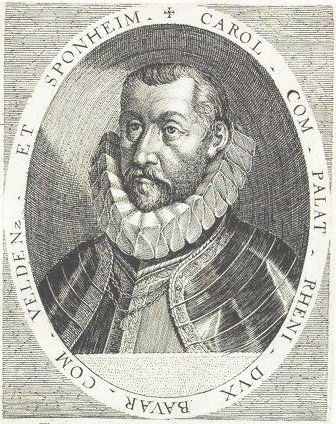 Karl I Count Palatine by Rhine, Duke in Bavaria, Count to Veldenz and Sponheim (Karl I, Count Palatine of Zweibrücken-Birkenfeld) (1560-1600)